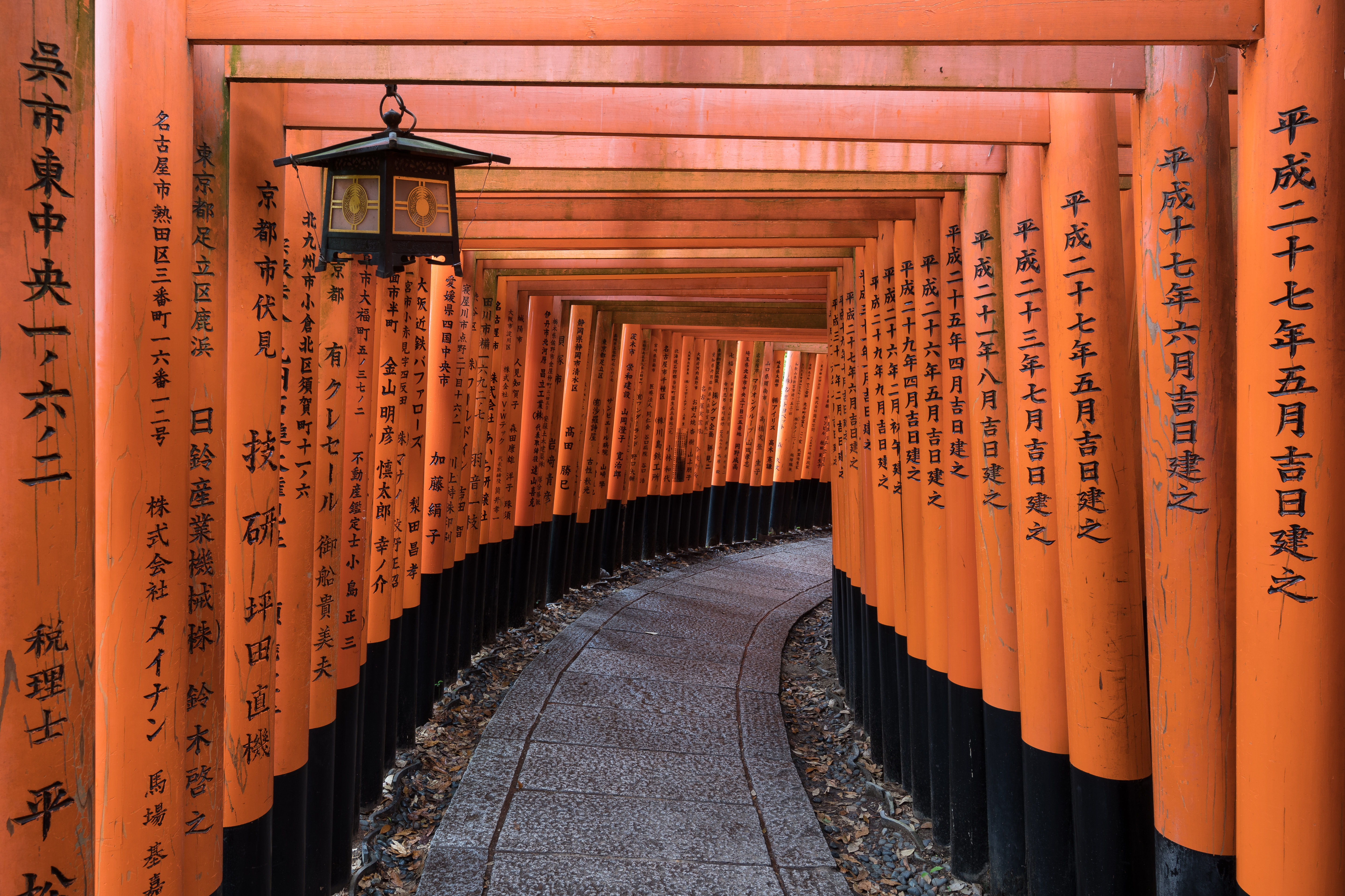 Torii path with a hanging lantern at Fushimi Inari Taisha Shrine Senbontorii, Kyoto, Japan.